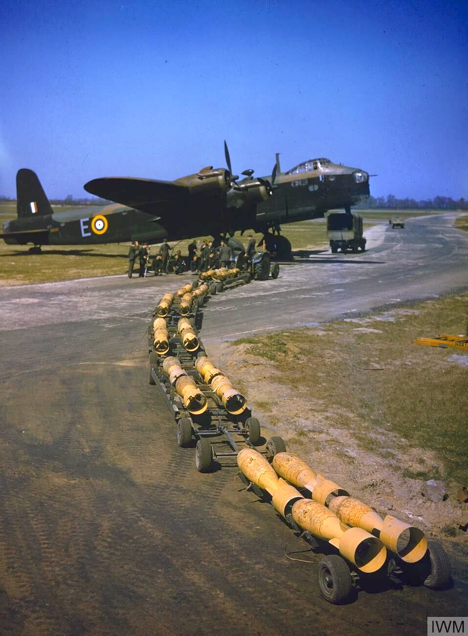 A bomb-train of twenty four 250lb bombs arriving to be loaded by the waiting Royal Air Force armourers into a Short Stirling bomber (s/n N6101) of No. 1651 Heavy Conversion Unit at Waterbeach, Cambridgeshire (UK). N6101 was one of the first Stirling built by Short and Harland at Belfast.